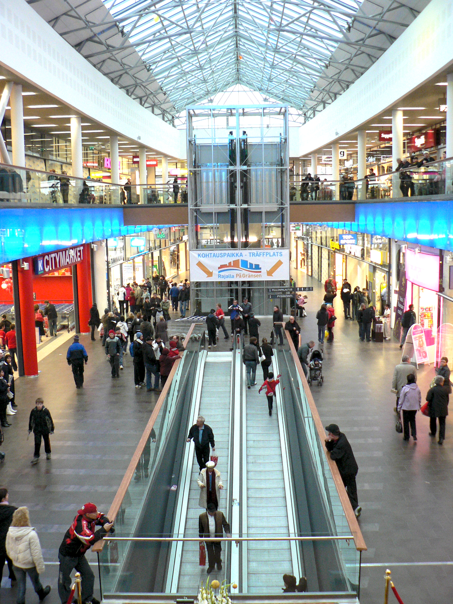 Shopping center "Kauppakeskus Rajalla – På Gränsen" in Tornio, Finland